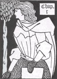 Sir Gareth Beaumains, illustration to Morte d'Arthur